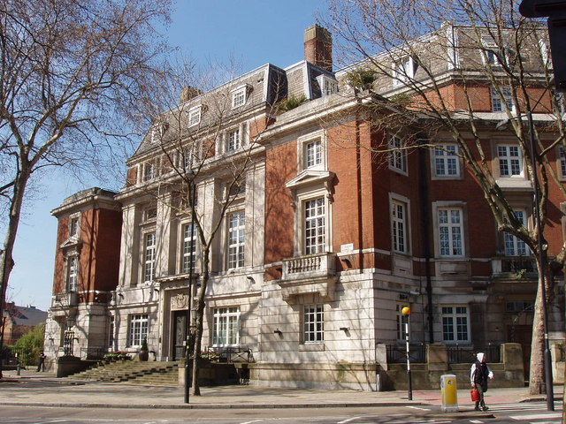 Former Water Board HQ, New River Head The site was the New River Company's offices and still contains their Oak Room of 1693. It became the HQ of the Metropolitan Water Board, and offices of Thames Water until 1993, when it was converted into apartments.